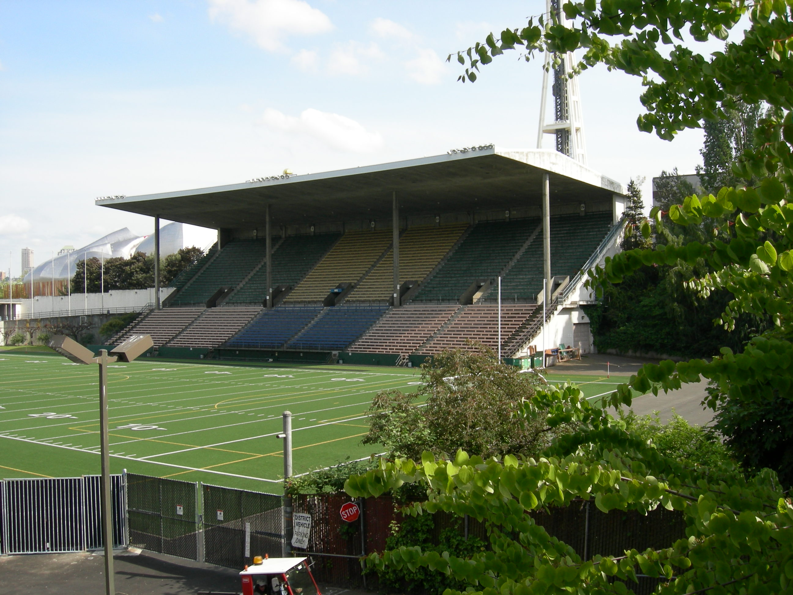 View of the playfield and south stand from northwest corner of Seattle High School Memorial Stadium, Seattle Center, Seattle, Washington. Experience Music Project building can be seen in background at left.